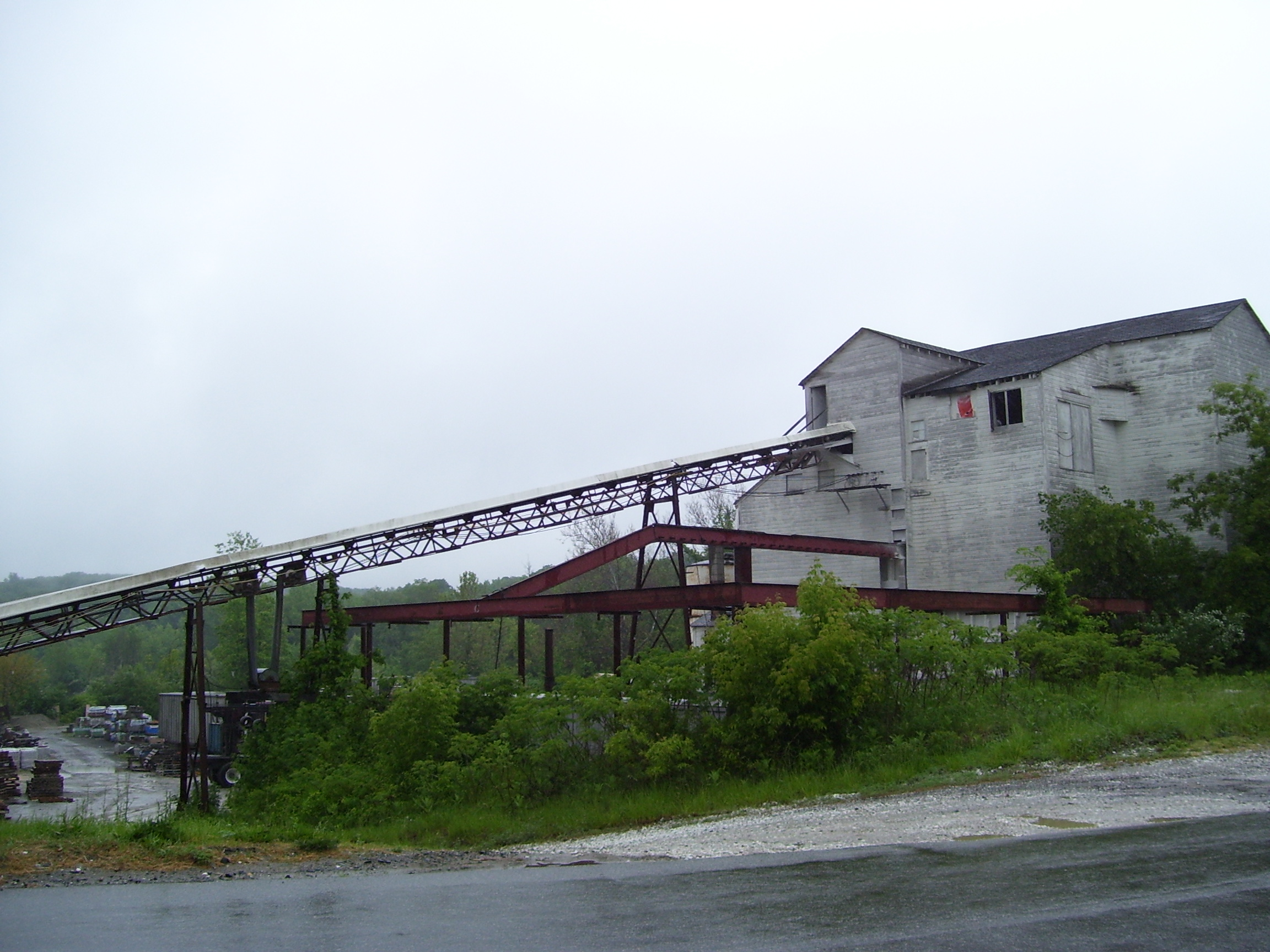 This is my 2008 photo of Limerock's Limestone Factory in Lincoln, Rhode Island.